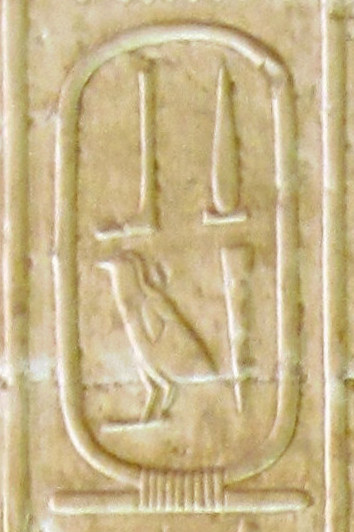 Cartouche 9, Abydos King List. Temple of Seti I, Abydos, Egypt